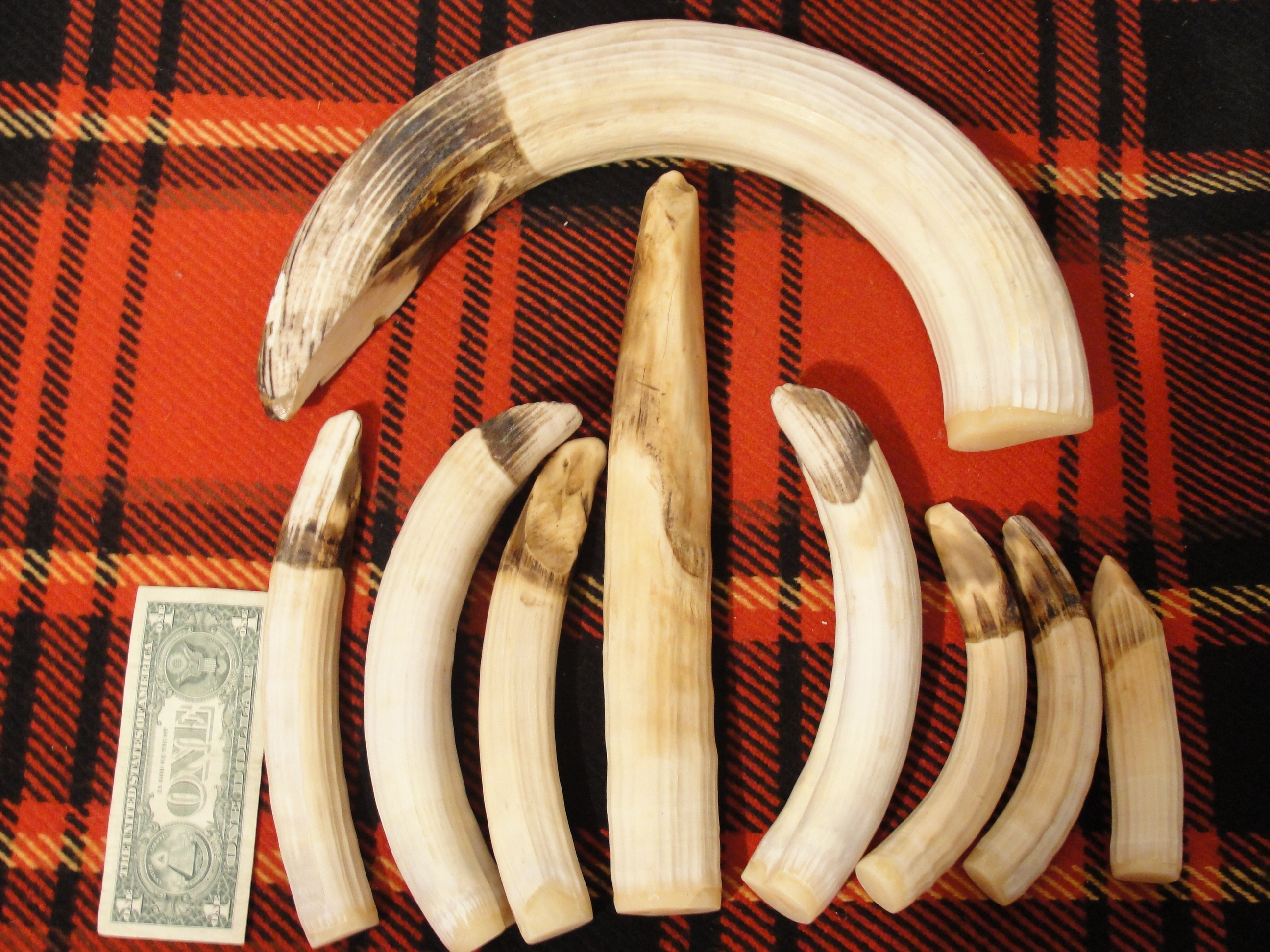 Tusks of a Male Hippopotamus Shot in Zambia in May 2010